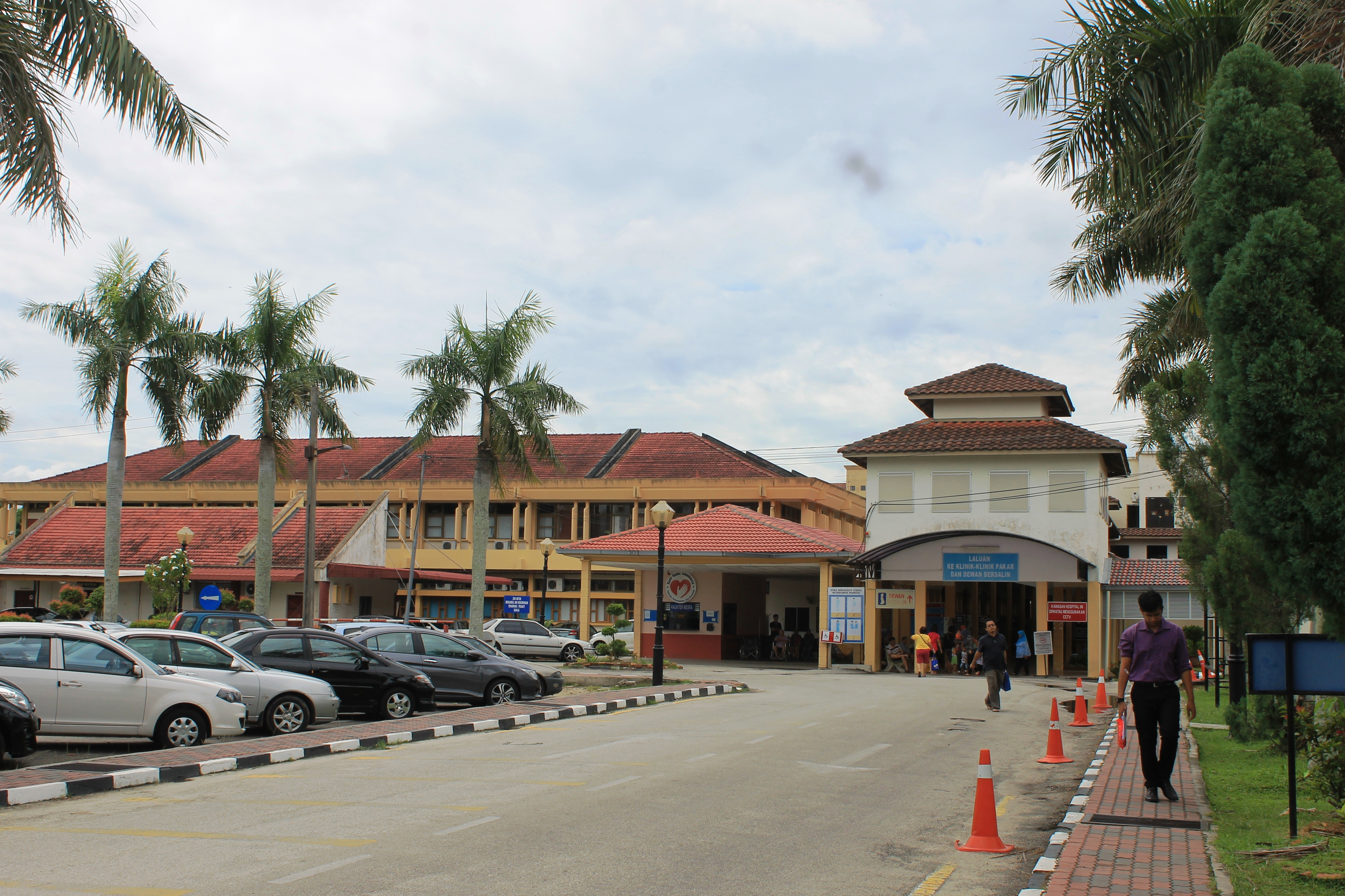 Main building of Hospital Pakar Sultanah Fatimah in Muar, Johor.